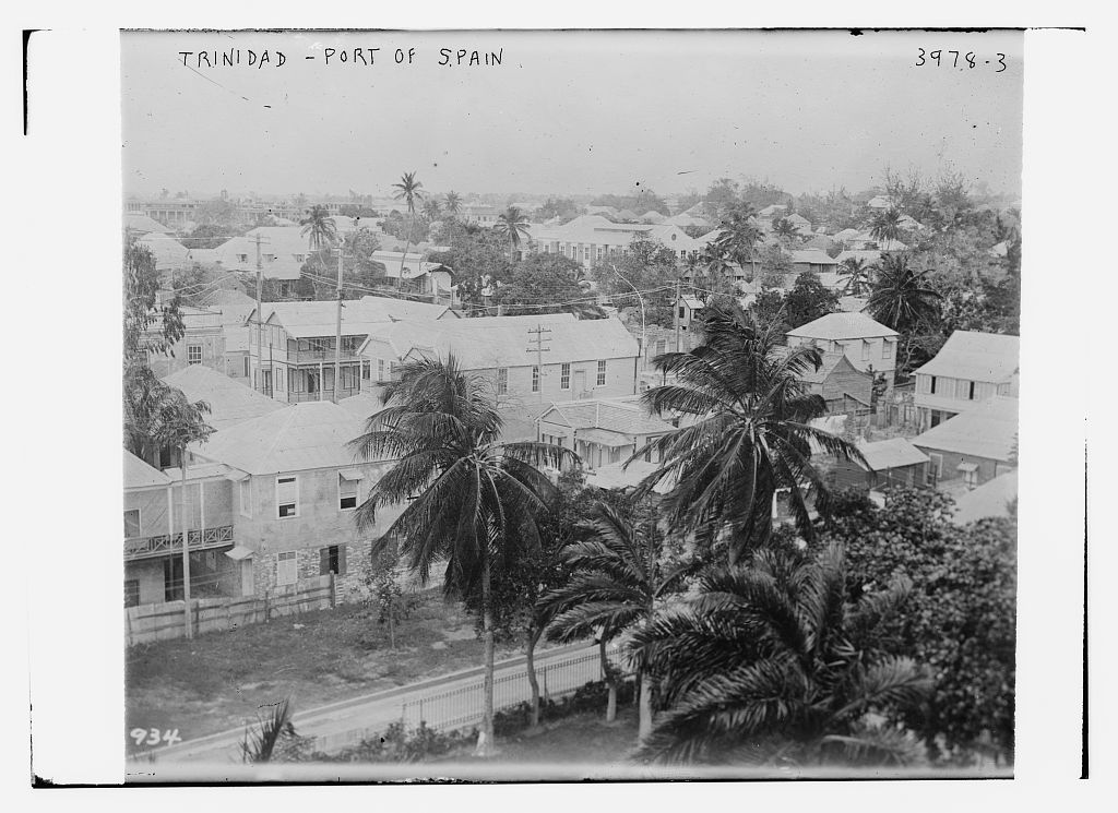 Bain News Service,, publisher. Trinidad -- Port of Spain [between ca. 1915 and ca. 1920] 1 negative : glass ; 5 x 7 in. or smaller. Notes: Title from unverified data provided by the Bain News Service on the negatives or caption cards. Forms part of: George Grantham Bain Collection (Library of Congress). Format: Glass negatives. Repository: Library of Congress, Prints and Photographs Division, Washington, D.C. 20540 USA, General information about the Bain Collection is available at Higher resolution image is available (Persistent URL): Call Number: LC-B2- 3978-3